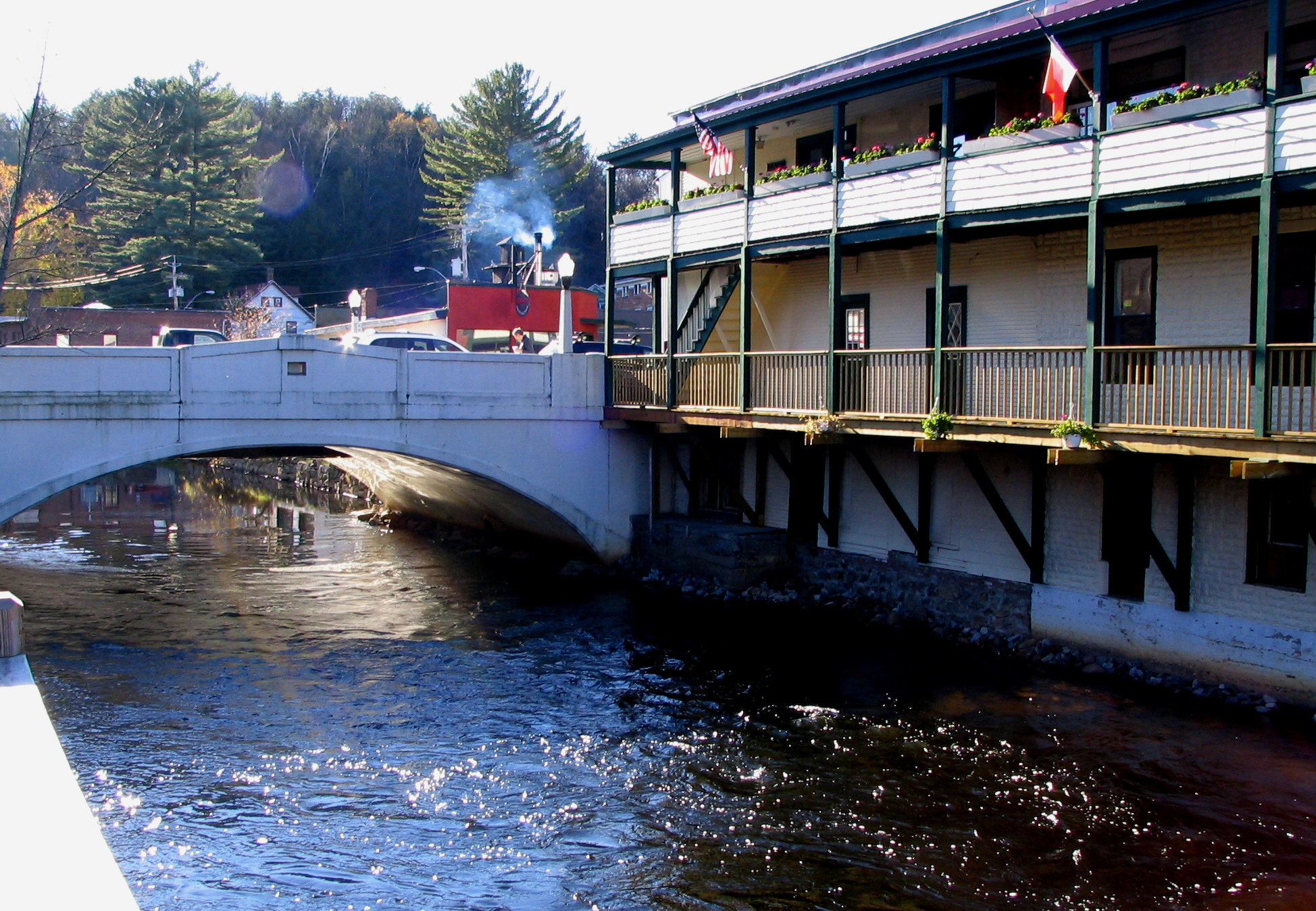 Saranac Lake, New York - Saranac River Broadway bridge. Taken by User:Mwanner 2 November, 2007.